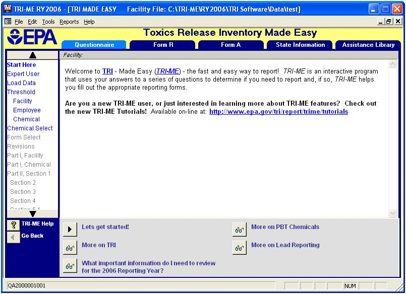 A screen shot of the Toxics Release Inventory - Made Easy (TRI-ME) program, reporting year 2006. Work of the U.S. Federal Govt (EPA), therefore in public domain.